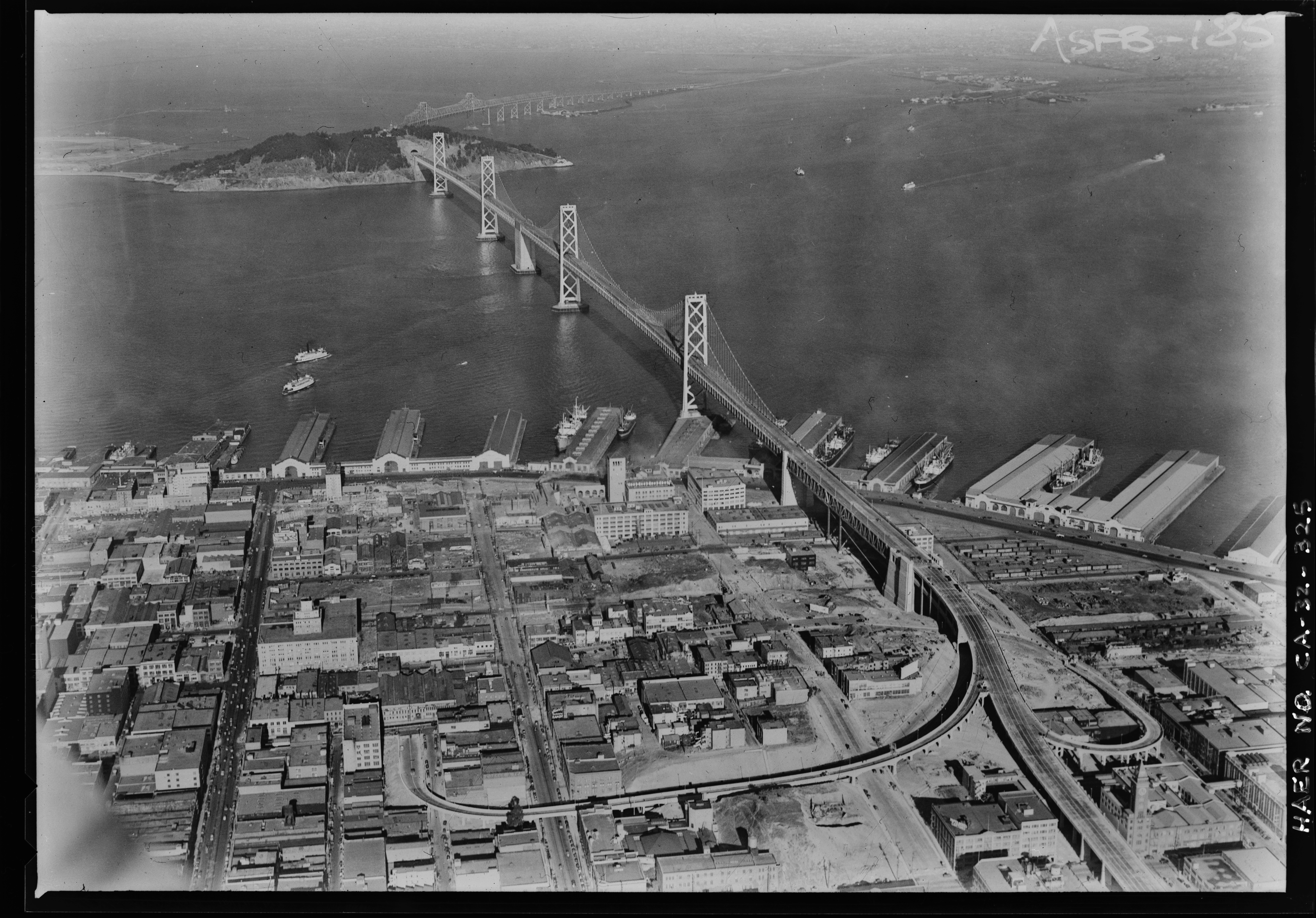 Title: 325. Clyde Sunderland, Photographer November 9, 1936 AERIAL VIEW OF SUSPENSION BRIDGE TO YERBA BUENA ISLAND AND BEYOND FROM SAN FRANCISCO. - San Francisco Oakland Bay Bridge, Spanning San Francisco Bay, San Francisco, San Francisco County, CA Reproduction Number: HAER CAL,38-SANFRA,141--325 Repository: Library of Congress Prints and Photographs Division Washington, D.C. 20540 USA Collections: Historic American Buildings Survey/Historic American Engineering Record/Historic American Landscapes Survey Rights and Restrictions Information